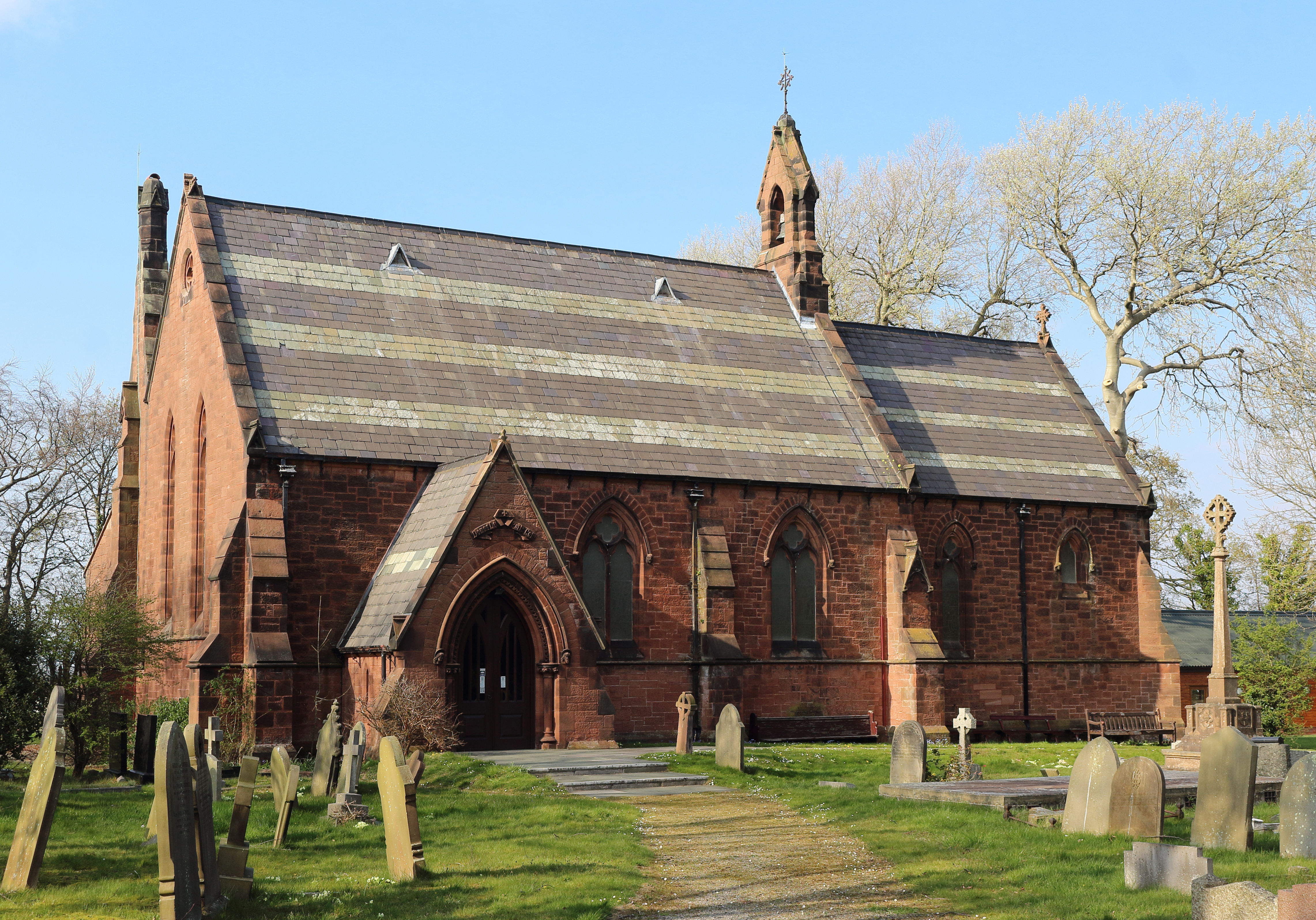 View from the southwest, just by the lychgate.